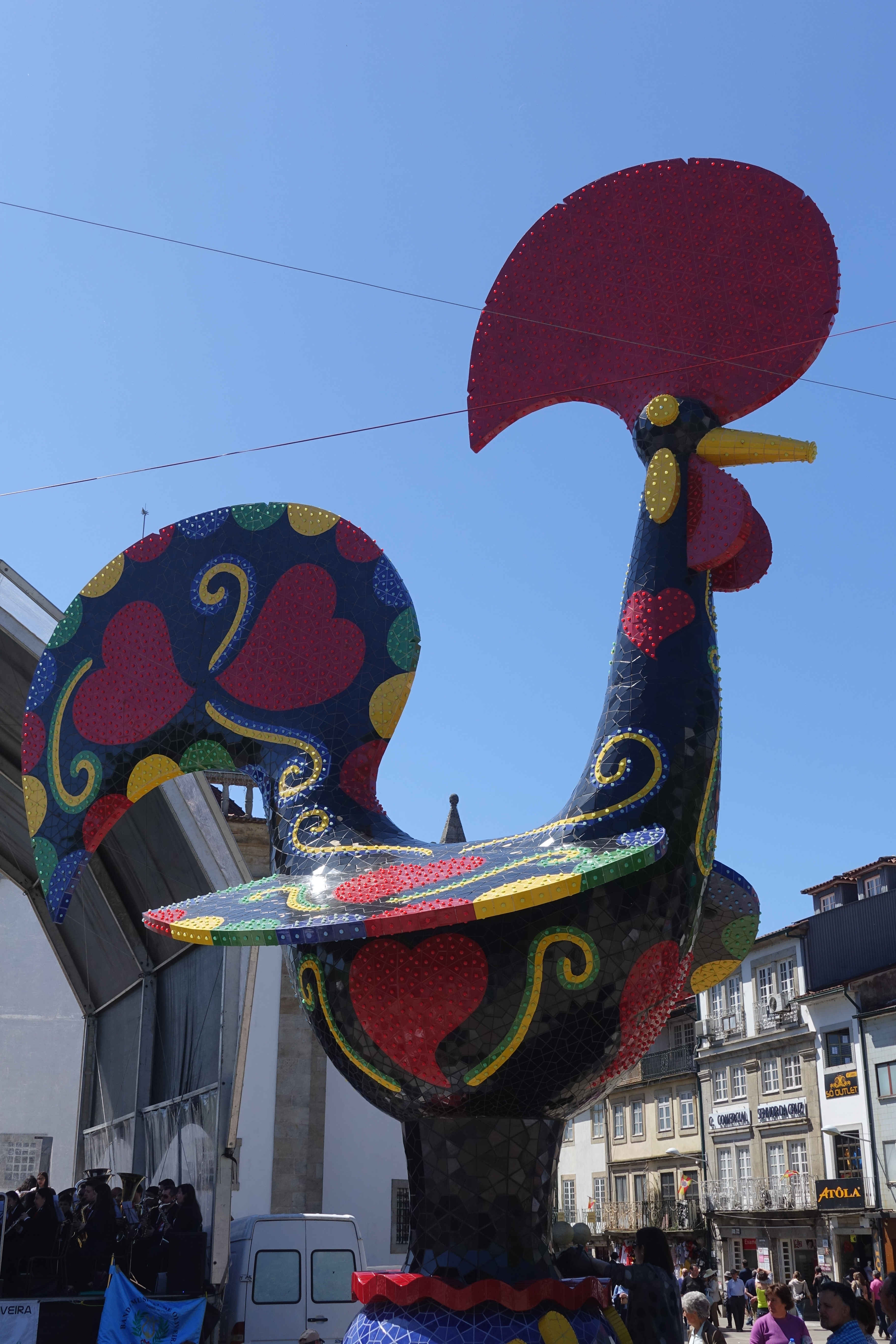 Barcelos Portugal in 2019